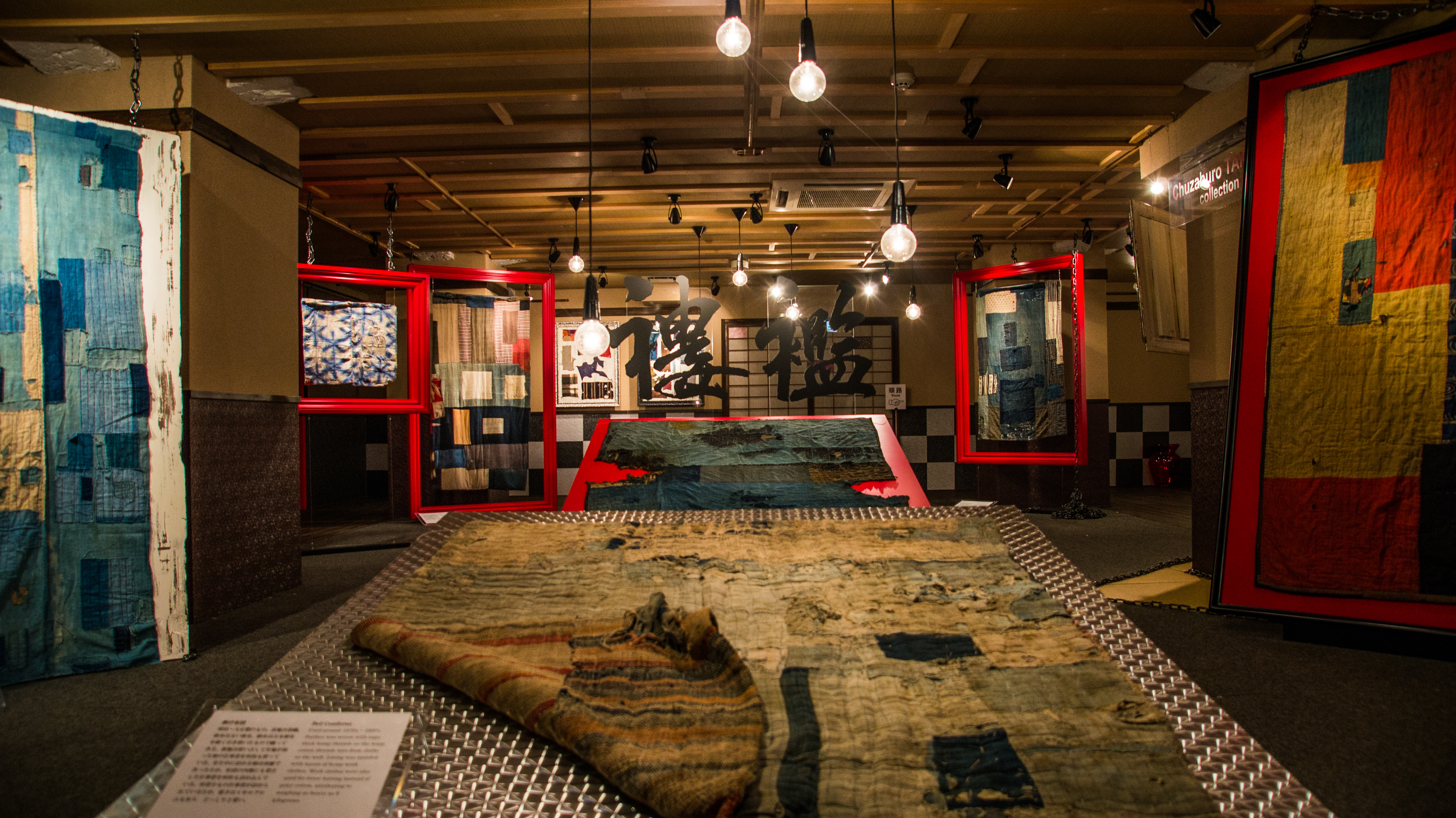 BORO